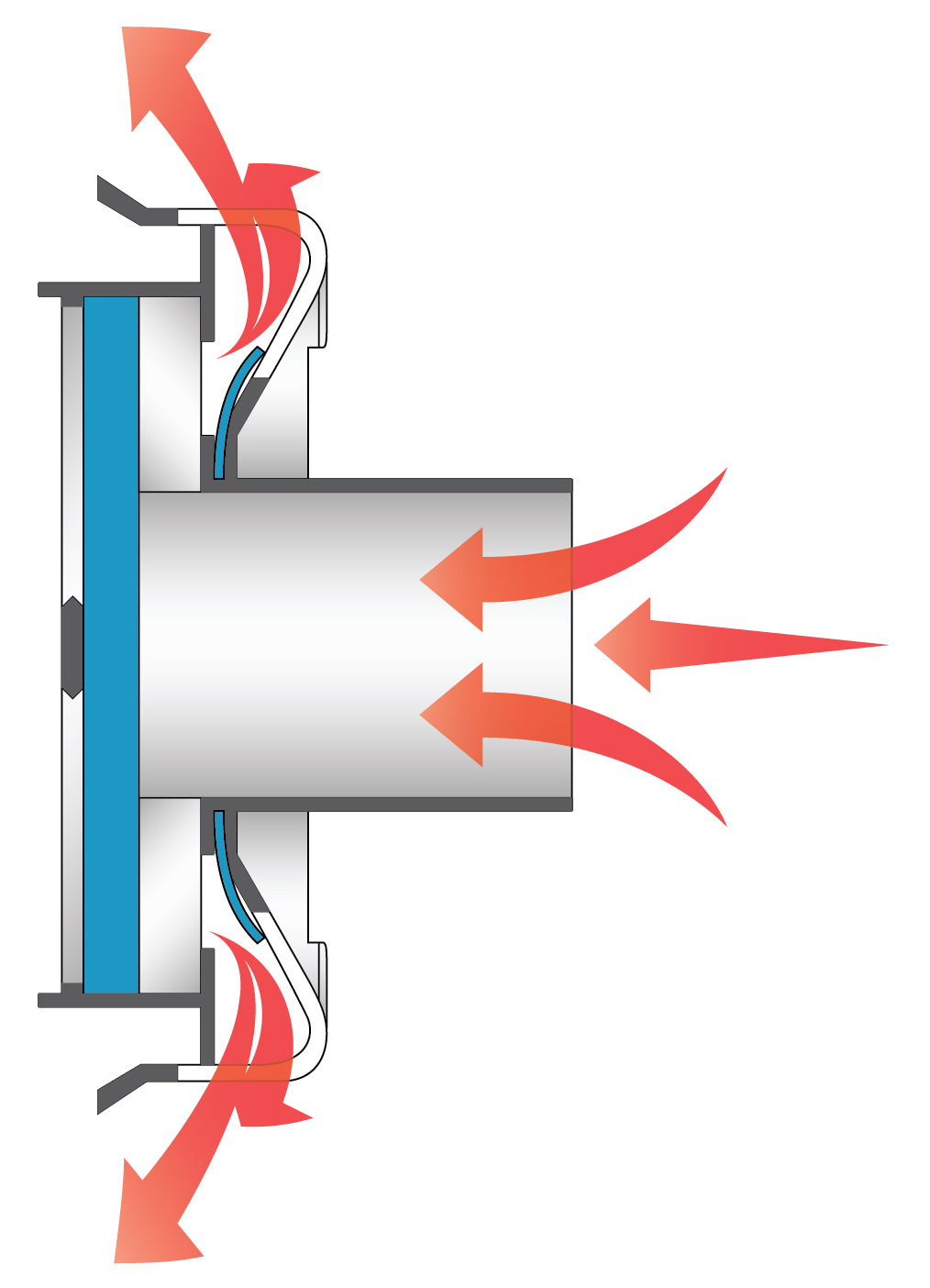 The image shows how the valve on a demand valve closes when a patient breathes out.